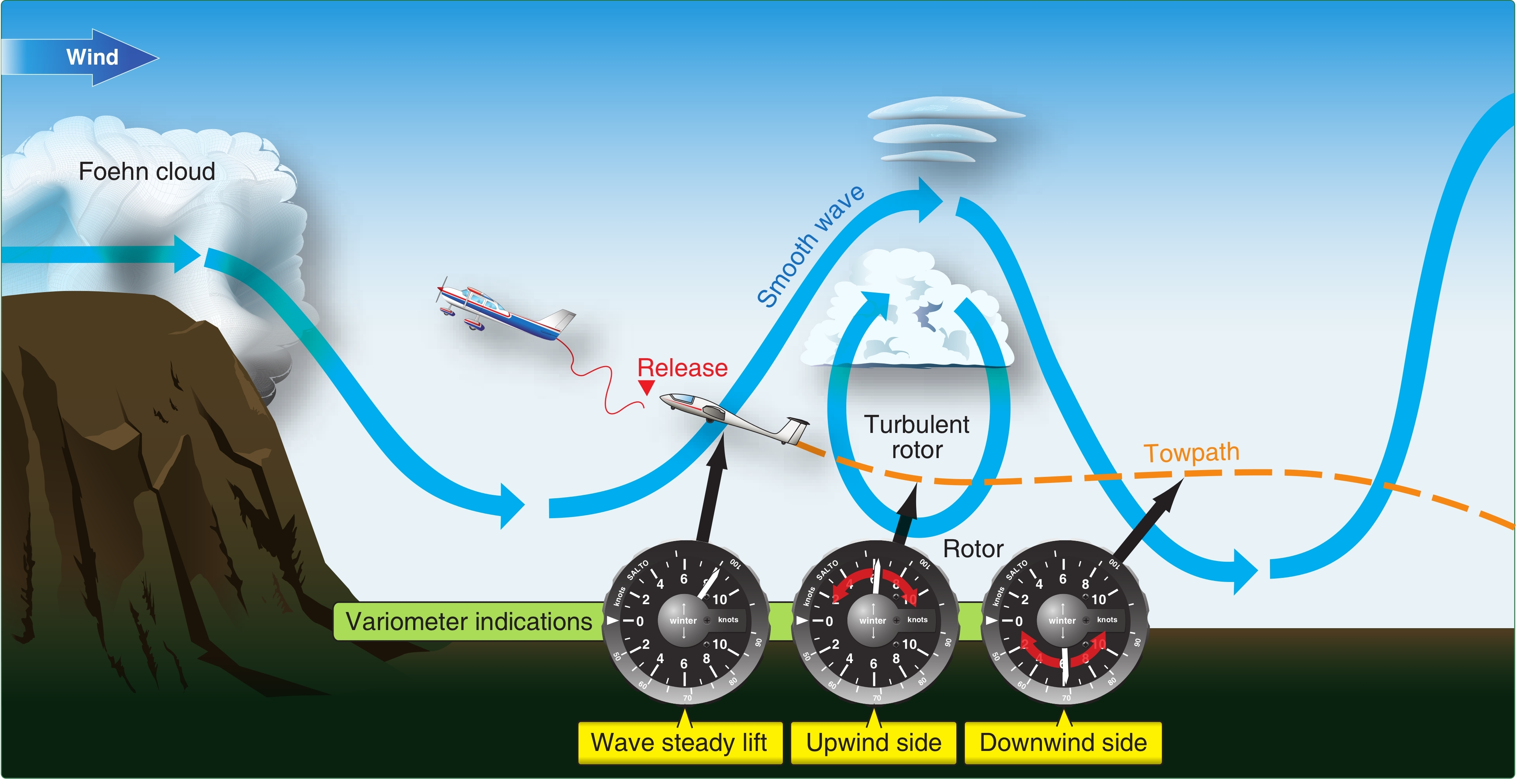 Structure of a rotor associated to mountain waves.